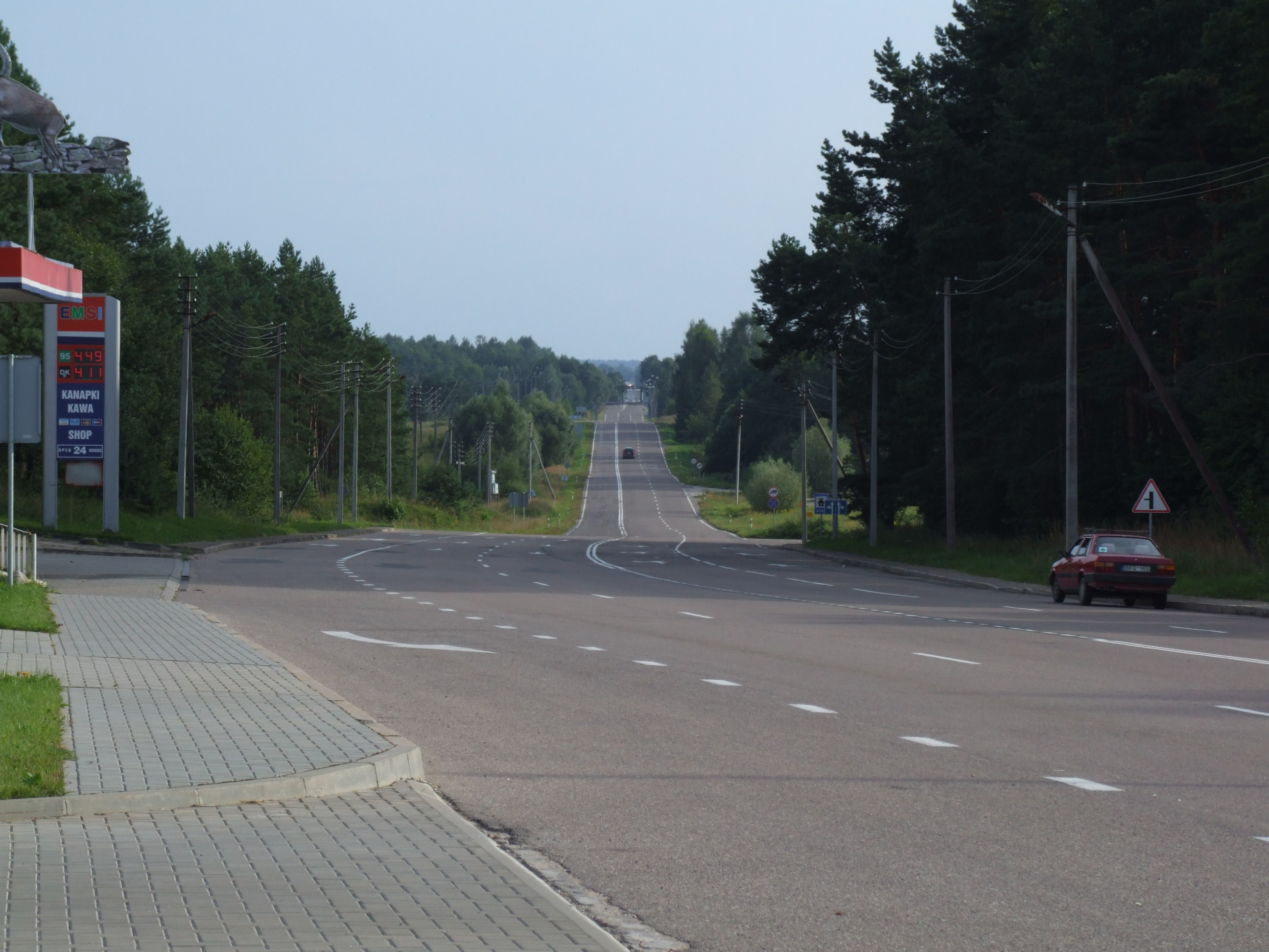 Former border crossing Ogrodniki-Lazdijai - view from the Lithuanian side